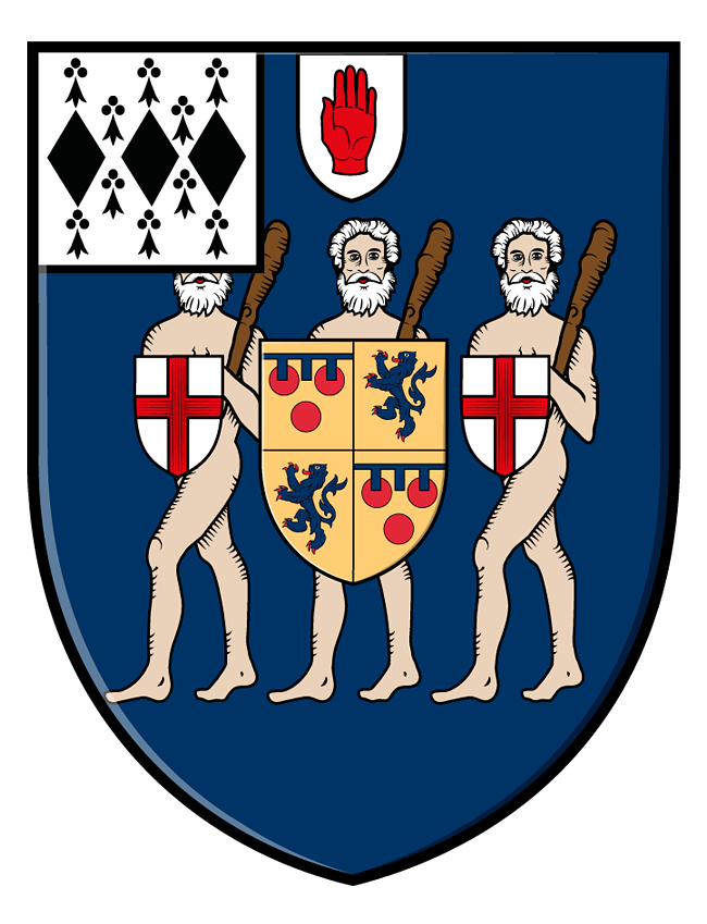 Arms of The Rt Hon Charles Lindley Wood, 2nd Viscount Halifax of Monk Bretton in the West Riding of the county of Yorkshire, the son of The Rt. Hon. Charles Wood, 1st Viscount Halifax, GCB, PC, and his descendants. Arms— Azure, three naked savages ambulant in fesse proper, in the dexter hand of each a shield argent, charged with a cross gules in the sinister a club resting on the shoulder also proper, on a canton ermine, three lozenges conjoined in fesse sable, and upon an escutcheon of pretence the arms of Courtenay, namely, quarterly, 1 and 4, or, three torteaux surmounted by a label of three points azure (for Courtenay) ; 2 and 3, or, a lion rampant azure (for Redvers). Above the escutcheon, which is charged with his badge of Ulster as a Baronet, is placed the coronet of his rank, and thereupon a helmet befitting his degree, with a Mantling azure and argent; and for his Crest, upon a wreath of the colours, a savage as in the arms the shield charged with a griffin's head erased argent. Supporters—On either side a griffin sable, gorged with a collar, and pendent therefrom a portcullis or. Motto—“I like my choice.” Charles married April 22, 1869, Lady Agnes Elizabeth (d. 1919), only daughter of The Rt Hon William Reginald Courtenay, eleventh Earl of Devon and his wife, Lady Elizabeth Coutenay née Fortescue, The Countess of Devon; and has had Issue—(1) The Hon Charles Reginald Lindley Wood (17 July 1870 –6 September 1899), (2) The Hon Alexandra Mary Elizabeth Wood (25 August 1871 –10 March 1965), (3) The Hon Francis Hugh Lindley Wood (21 September 1873 –17 March 1889), (4) The Hon Mary Agnes Emily Wood (25 March 1877 –25 March 1962), (5) The Hon Henry Paul Lindley Wood (25 January 1879 –6 June 1886), (6) The Rt Hon Edward Frederick Lindley Wood, 3rd Viscount Halifax and 1st Earl of Halifax (16 April 1881 –23 Dec 1959)